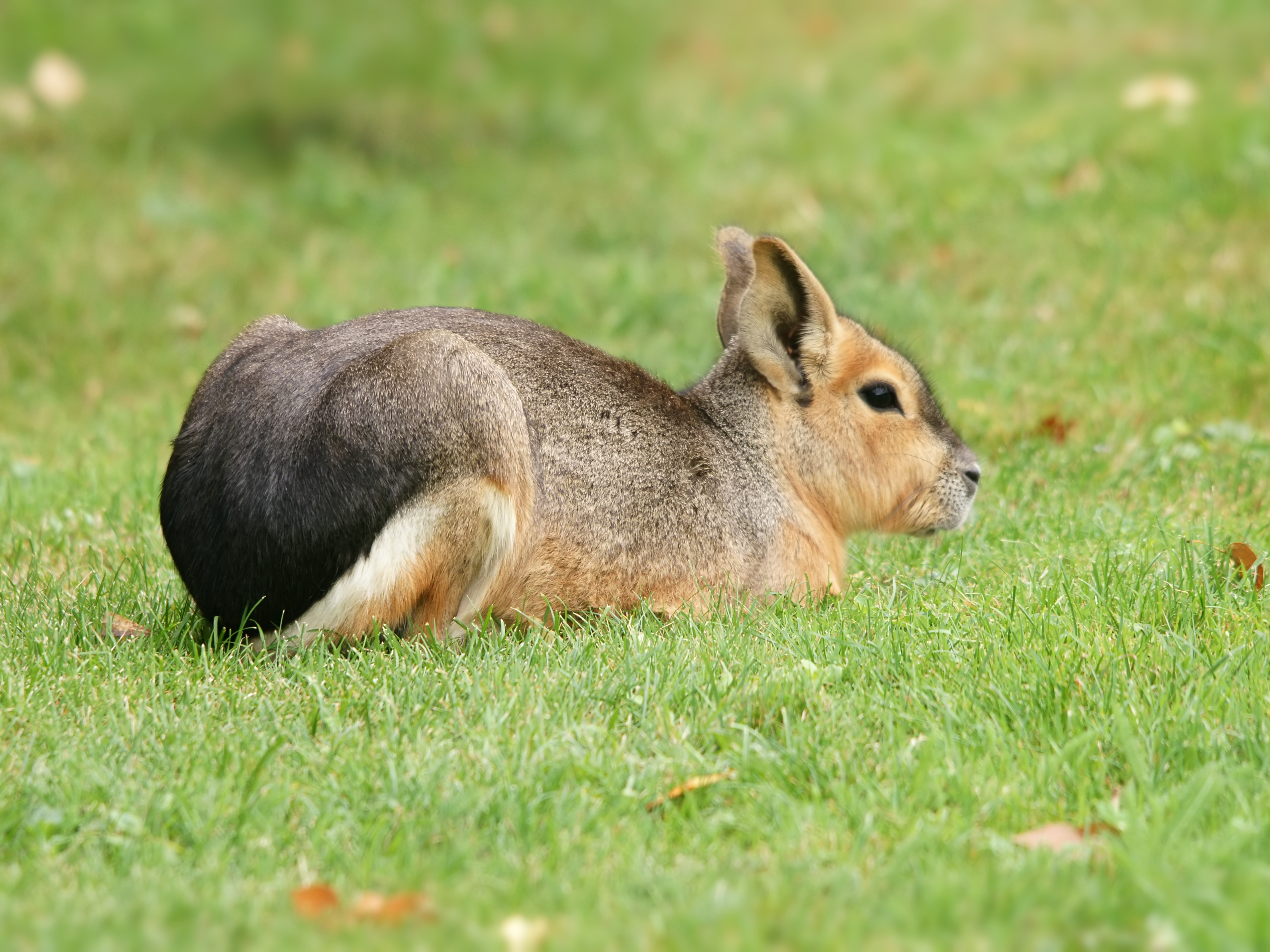 Mara at La Vallée de Singes, at Romagne (Vienne, Poitou-Charentes), France.